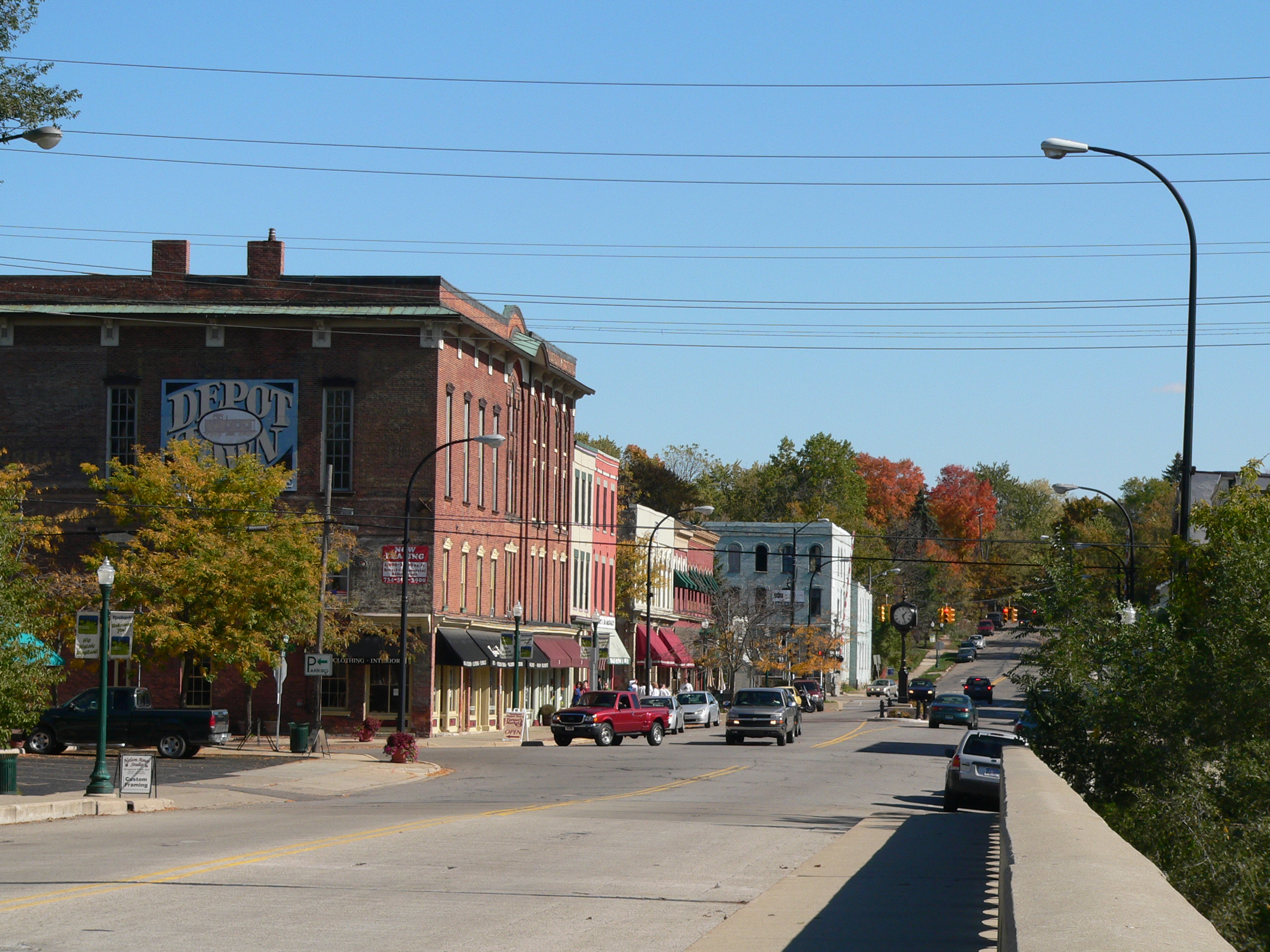 View into Depot Town in Ypsilanti, Michigan in October 2008, from the Cross Street bridge over the Huron River, looking down Cross Street to the River Street intersection and beyond.